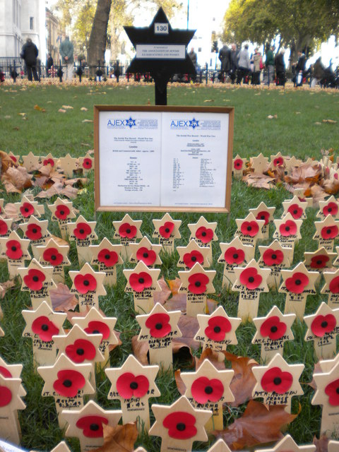 AJEX, Westminster Abbey